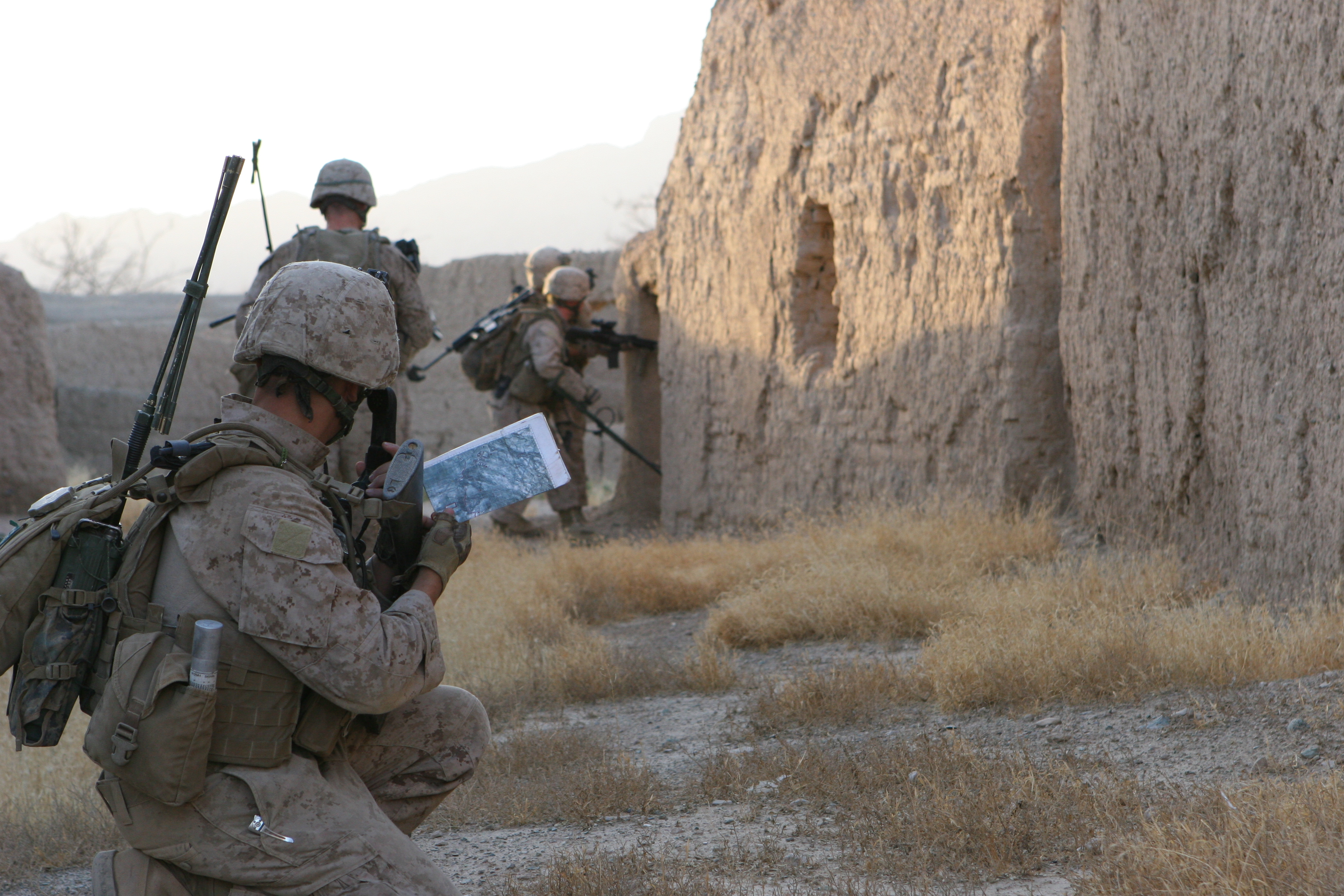 U.S. Marines with 2nd Battalion, 3rd Marine Regiment, Company G conduct a patrol the morning of June 26. These Marines courageously engage in both day and night operations through the mine-infested town of Now Zad in Helmand province, Afghanistan, which was deserted by its former populace and controlled by Taliban militants in past years.